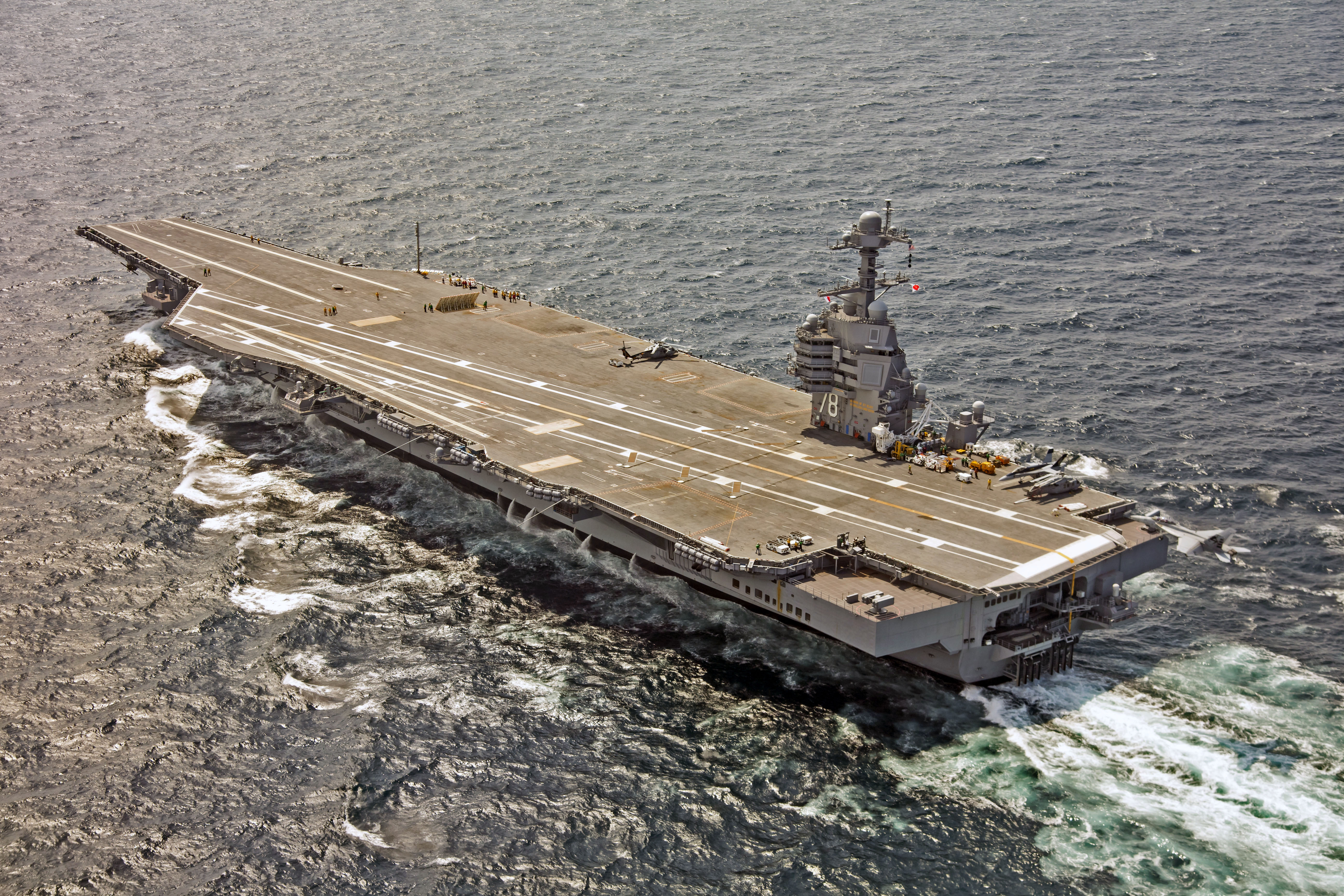 An F/A-18F Super Hornet assigned to Air Test and Evaluation Squadron (VX) 23 approaches the aircraft carrier USS Gerald R. Ford (CVN 78) for an arrested landing. The aircraft carrier is underway conducting test and evaluation operations.